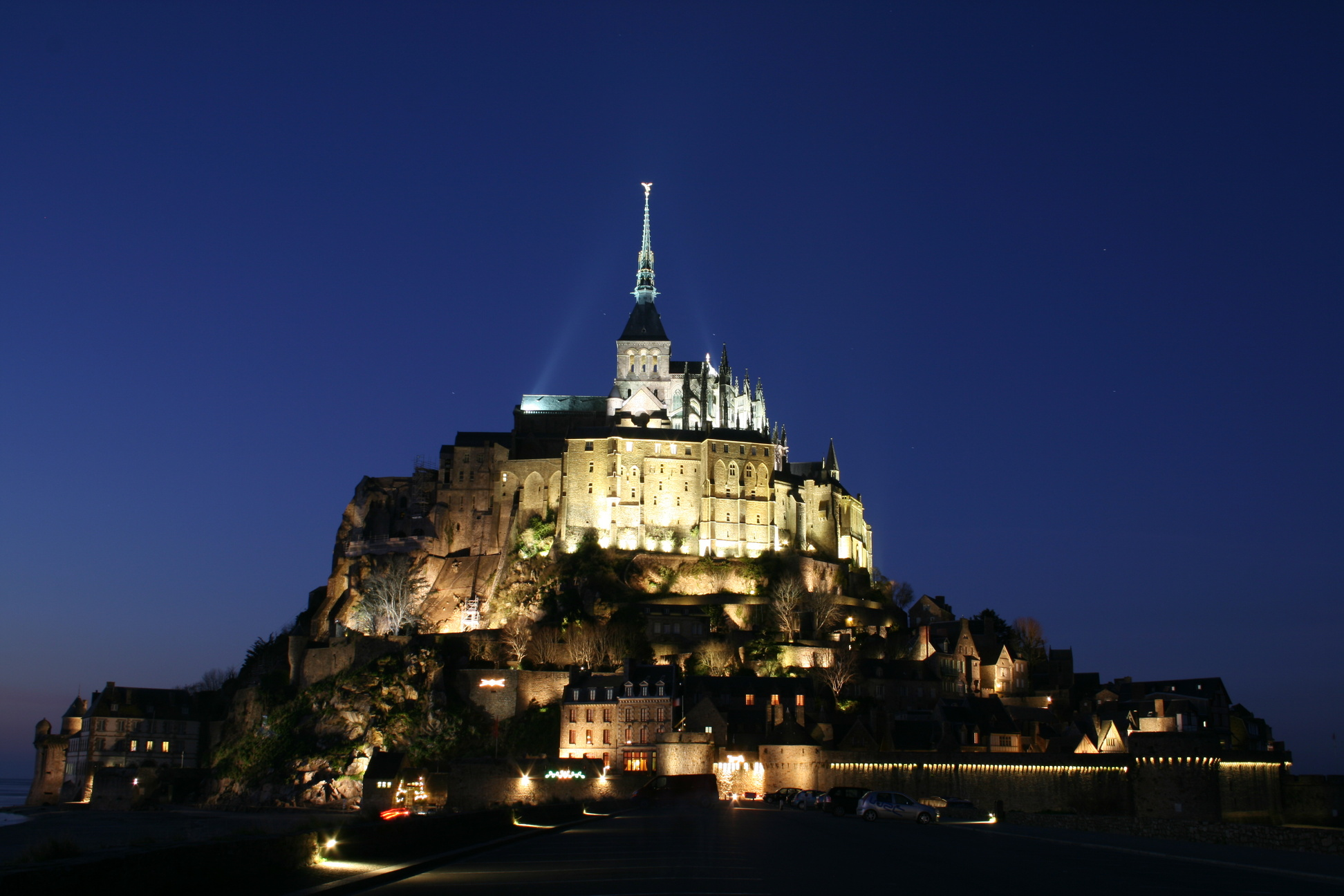 Mont Saint-Michel in Normandy (Manche), France at night.